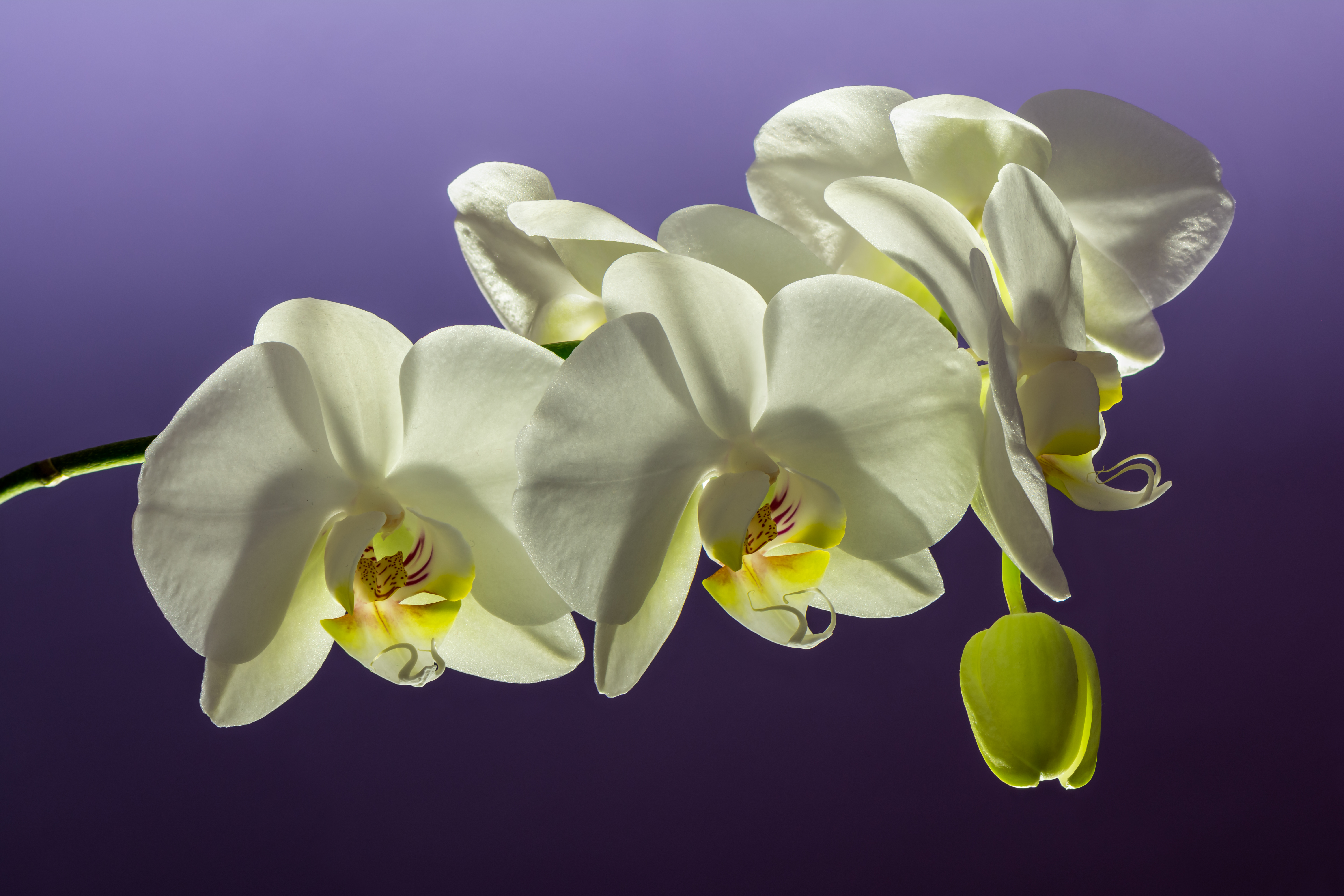 White Phalaenopsis cultivar